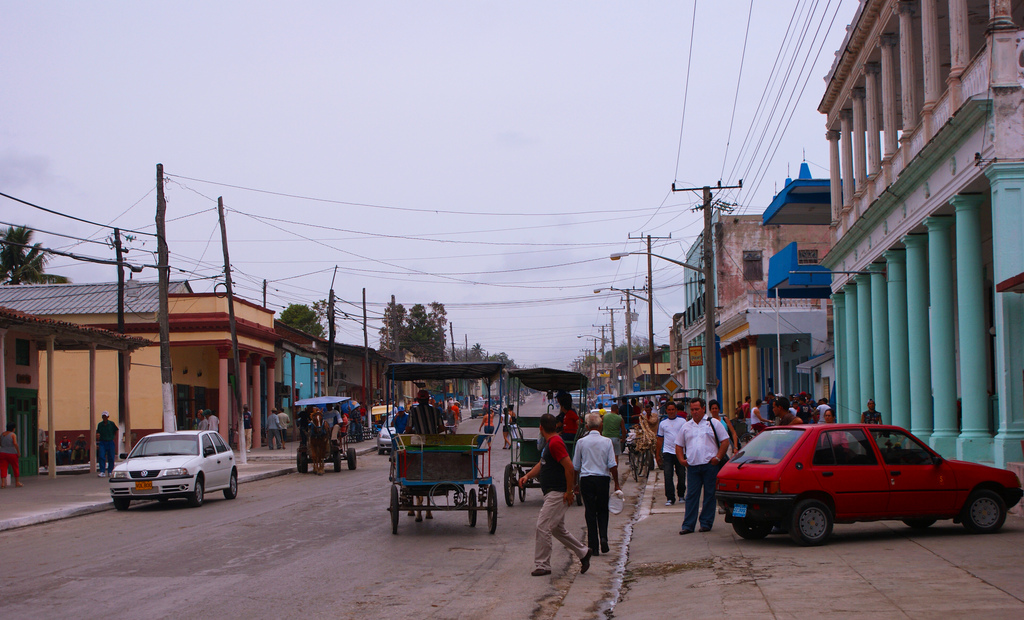 Main street of Yaguajay — in Sancti Spíritus Province, central Cuba.